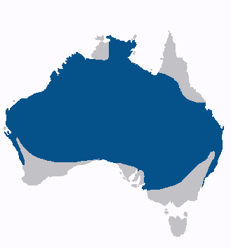 Range map for the Variegated Fairy-wren.